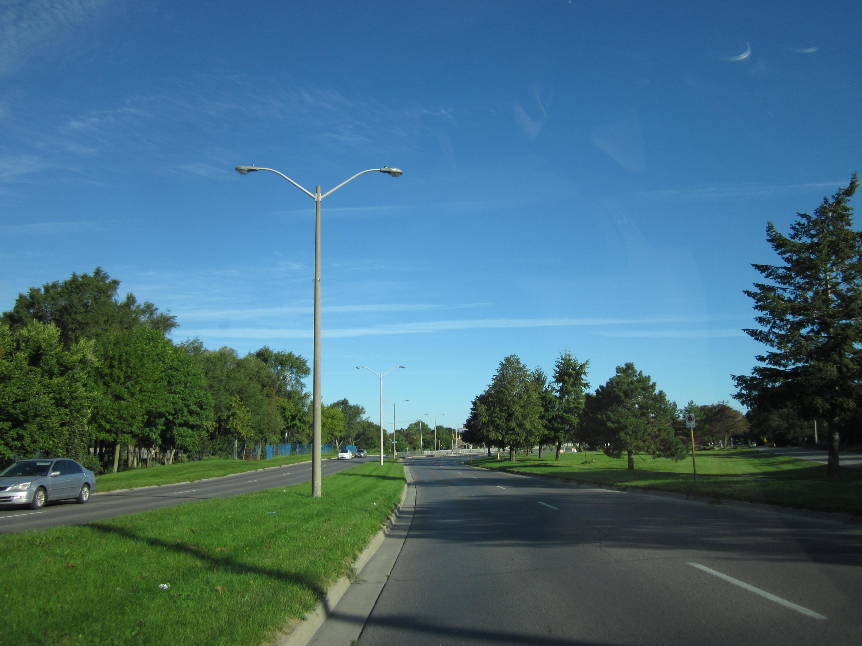 Sir John A. MacDonald Boulevard - Kingston, Ontario